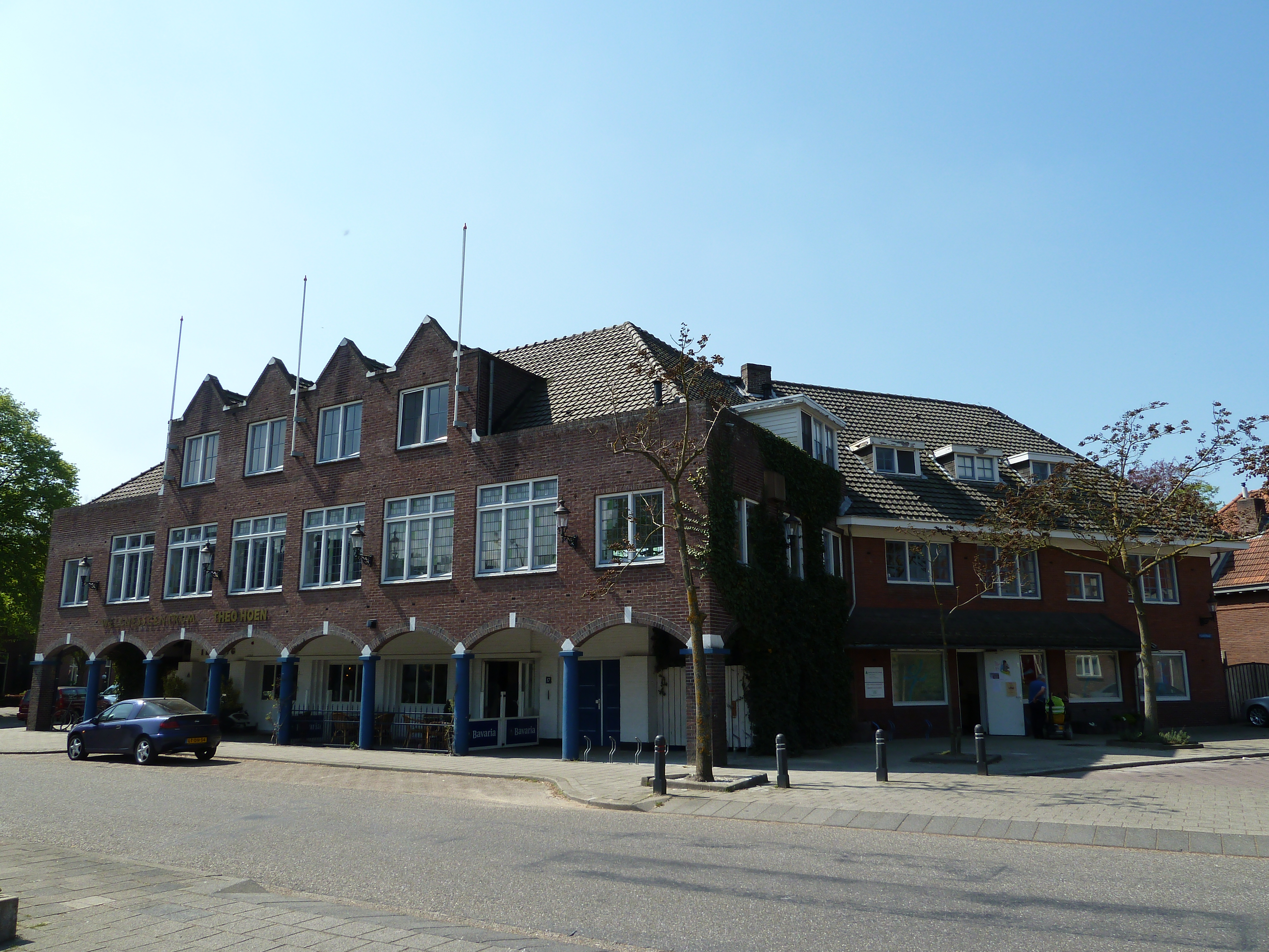 Uranusstraat 17, Brunssum, Limburg, the Netherlands